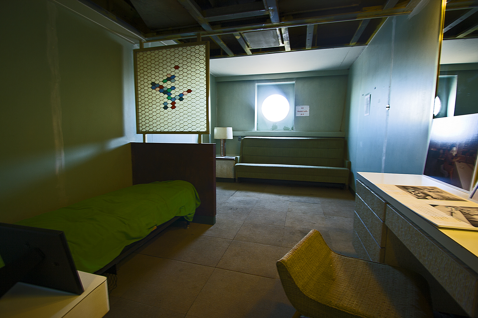 Passenger stateroom aboard the NS Savannah,Baltimore, Maryland, USA.